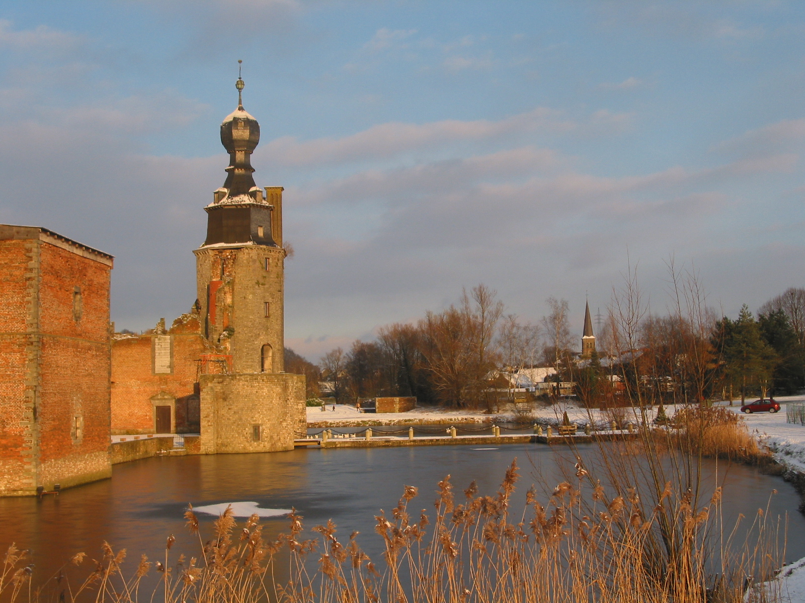 Havré (Belgium), castle ruins (XI/XVIIth centuries).